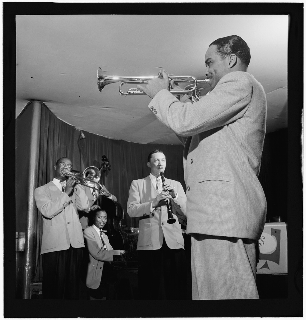 Buck Clayton (right) with Ted Kelly, Kenny Kersey, Benny Fonville, (Scoville) Toby Browne, Café Society (Downtown), New York, N.Y., ca. June 1947 (Photograph by William P. Gottlieb)